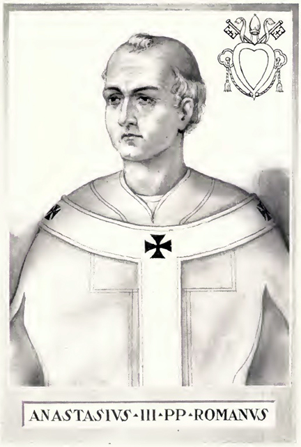 This illustration is from The Lives and Times of the Popes by Chevalier Artaud de Montor, New York: The Catholic Publication Society of America, 1911. It was originally published in 1842.